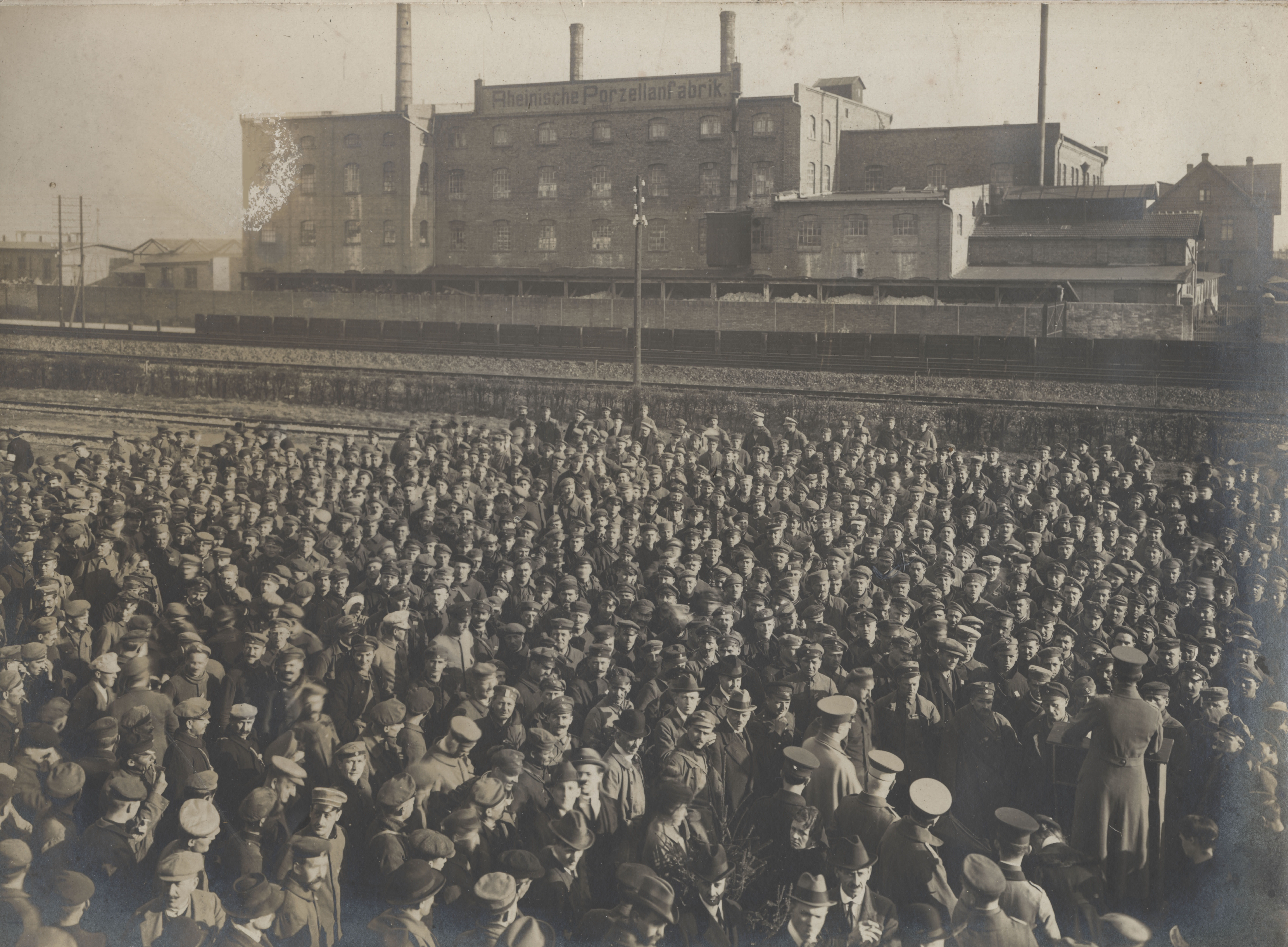 factory building of the Rheinische Porzellanfabrik Mannheim